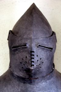 A bascinet, military helmet c. 14th century, European. (del) (cur) 21:15, 10 March 2006 . . Durova (Talk) . . 200x300 (10,945 bytes) (A bascinet, military helmet c. 14th century, European. Imported from the Hebrew Wikipedia.) he:תמונה:Helmet05.jpg